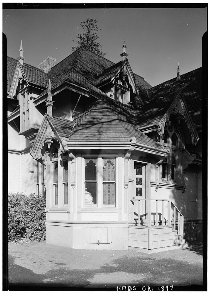 The J. Mora Moss House, in Oakland, California. Image: HABS—Historic American Buildings Survey in Oakland.